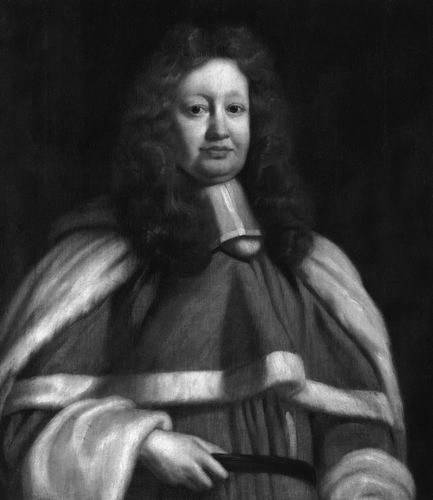 John Powell (1632-1696)